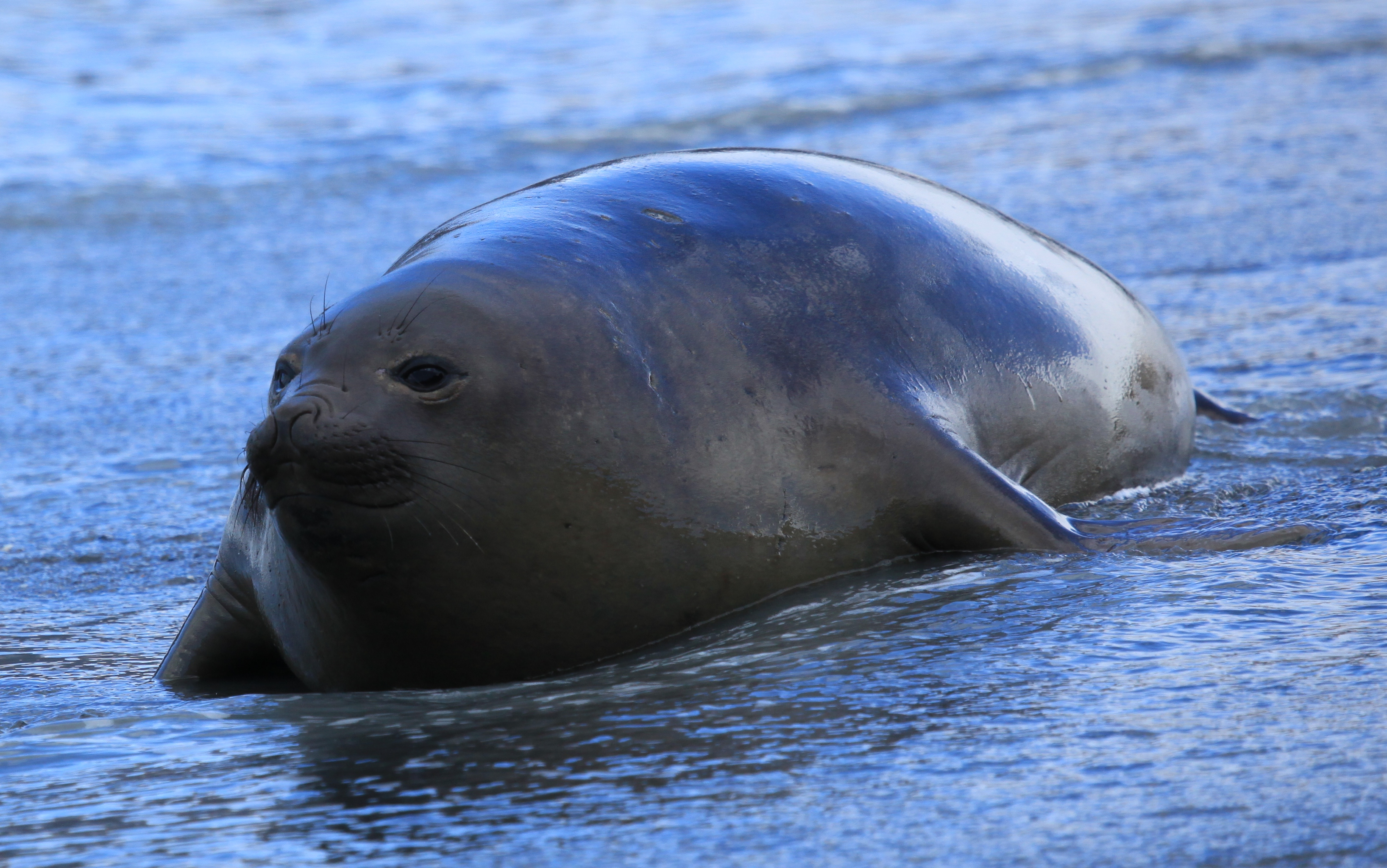 At St. Andrews Bay, South Georgia.